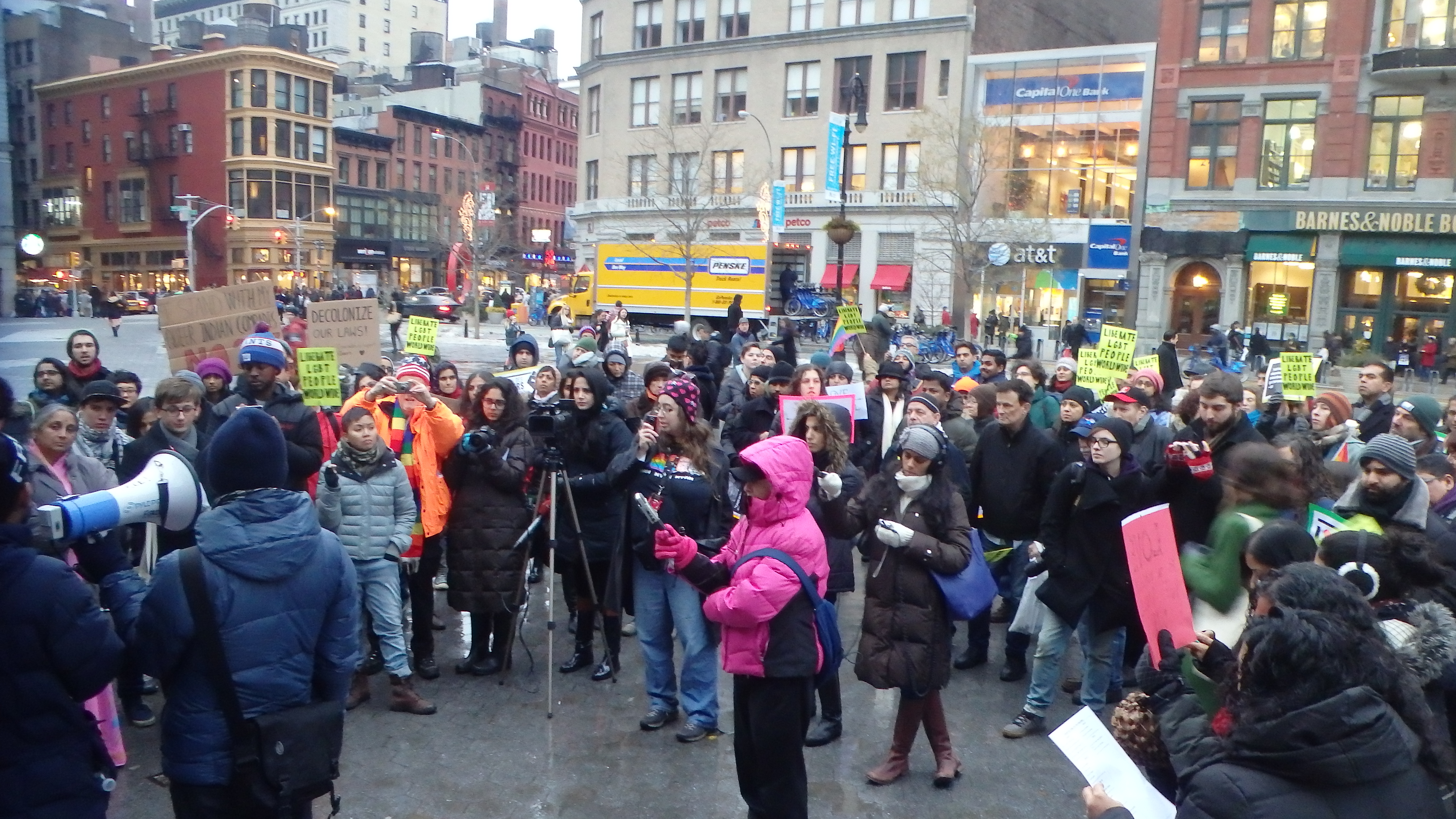 Protesting the Indian Supreme Court's reinstatement of sodomy laws.